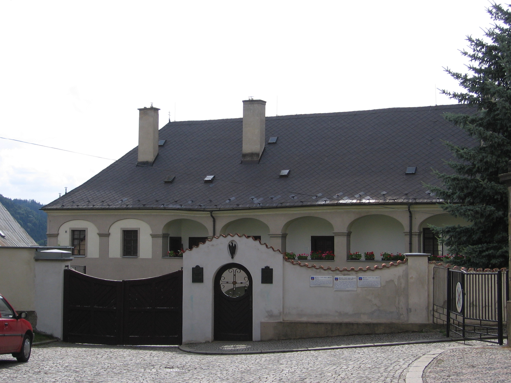 Deanery in Ústí nad Orlicí (Czech Republic)